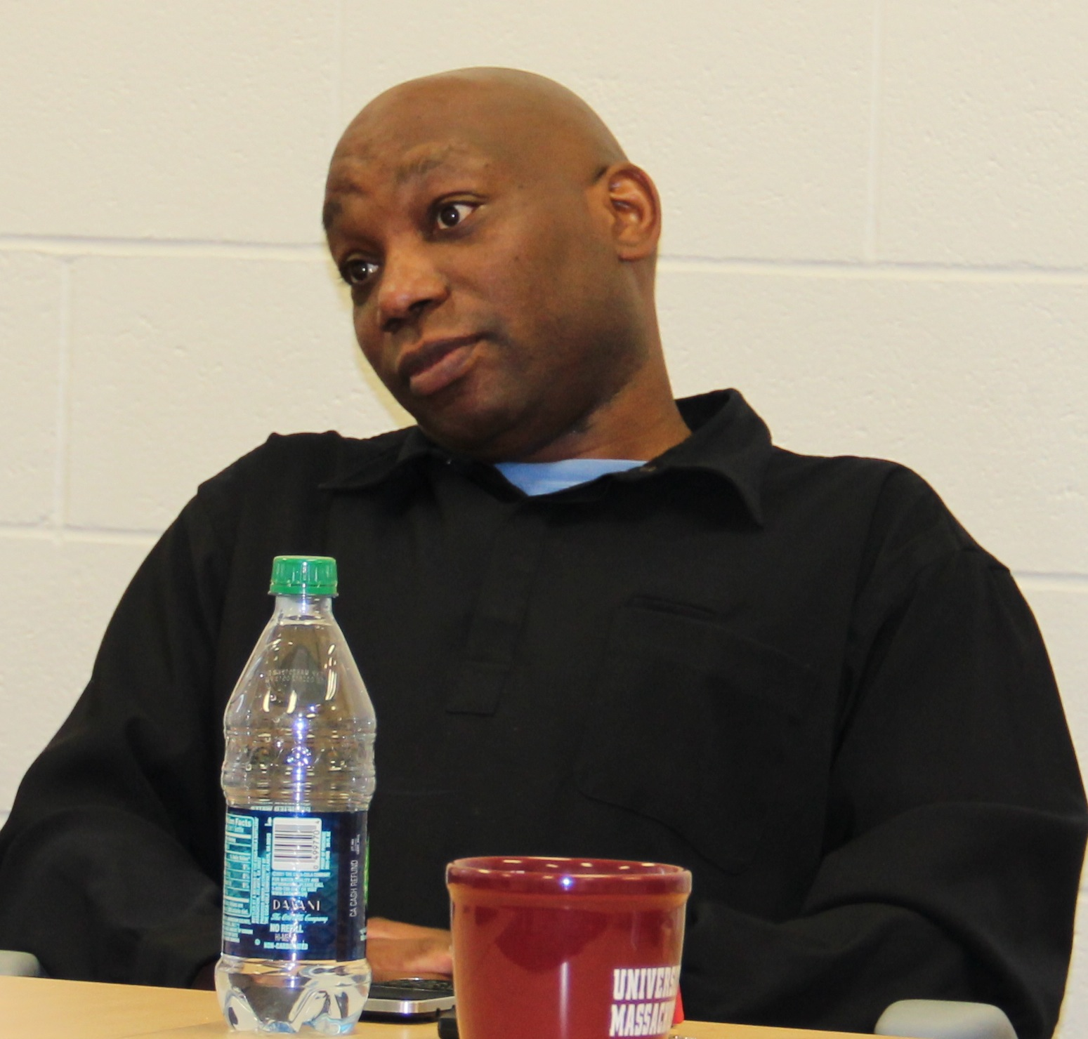 Howard Bryant, senior writer, and ESPN the Magazine